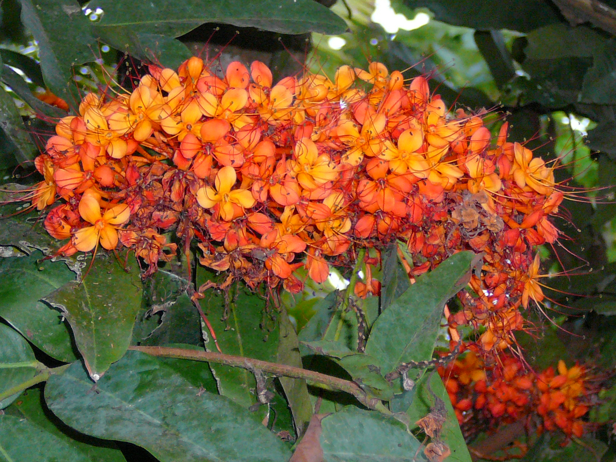 Flower